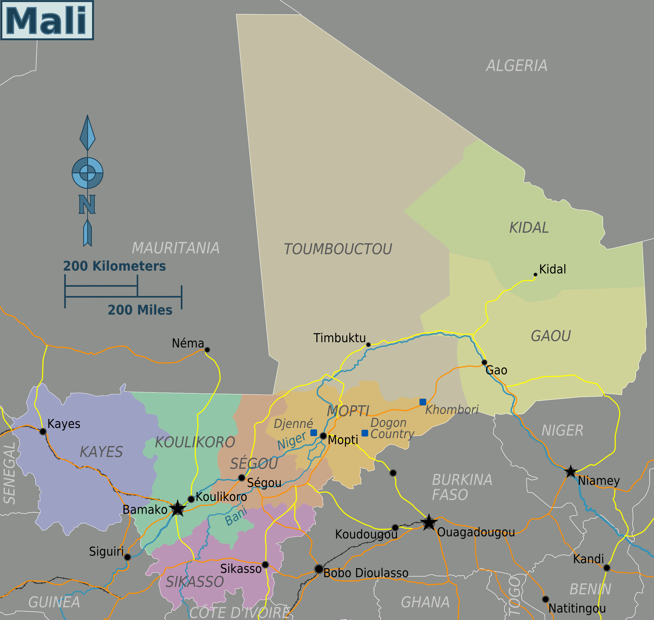 Mali regions map for use on Wikivoyage, English version